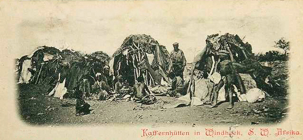 Windhoek at the end of the 19th century